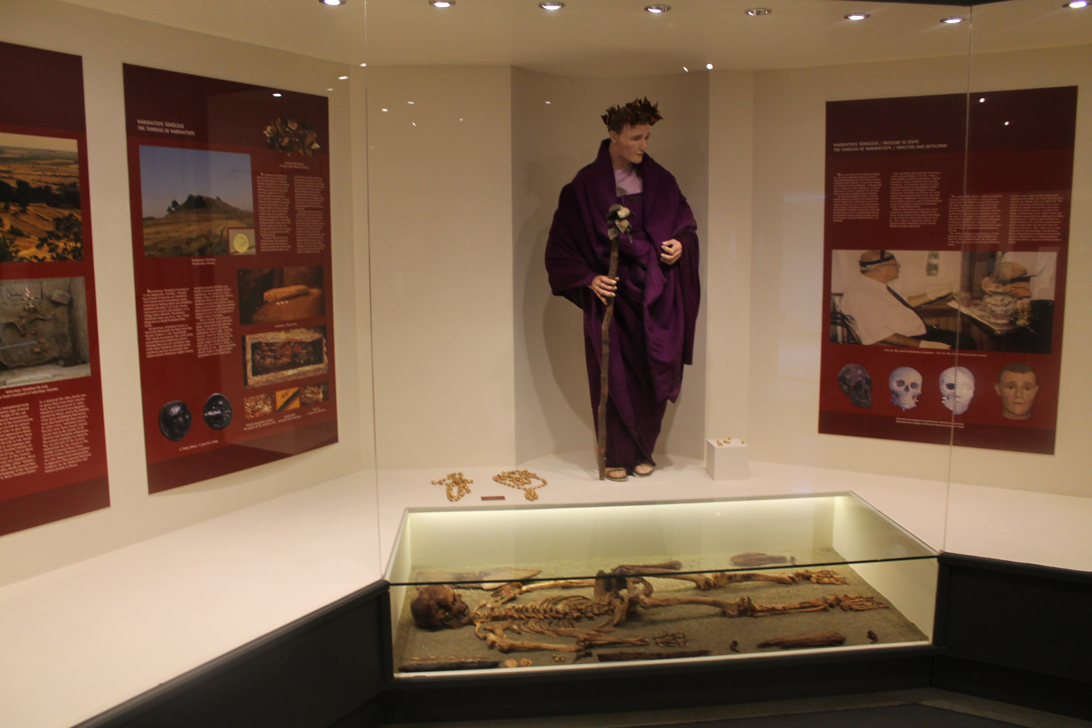 Thracian King Kersepleptes